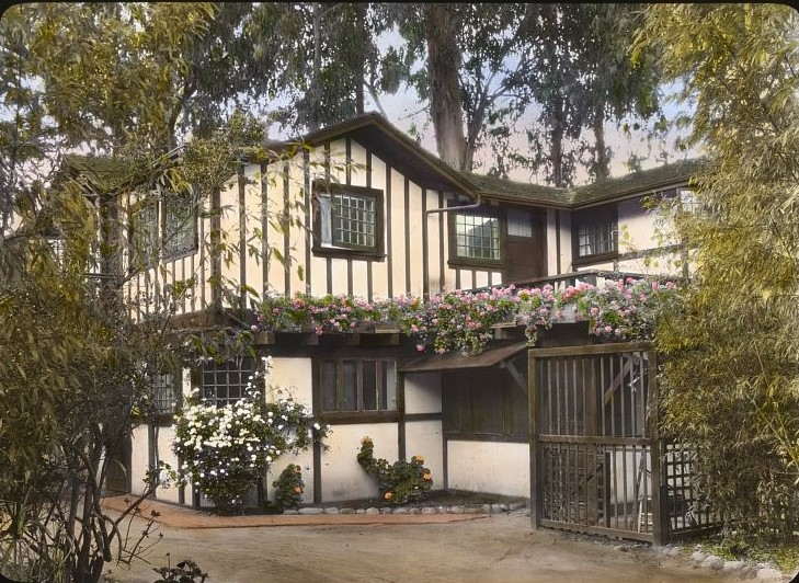 Title ["Inellan," Walter Douglas house, Channel Drive, Montecito, California. Service entrance] Contributor Names Johnston, Frances Benjamin, 1864-1952, photographer Created / Published [1917 spring] Subject Headings - Gardens--California--Montecito--1910-1920 - Houses--California--Montecito--1910-1920 Format Headings Lantern slides--Hand-colored--1910-1920. Notes - Site History. House Architecture: Francis Townsend Underhill, built 1902, with changes for Walter Douglas ca. 1906. Landscape: Francis Townsend Underhill, from 1902. Associated Name: Edith Bell (Mrs. Walter) Douglas. Other: Originally, Francis Townsend Underhill house, as part of Underhill's La Chiquita property, enlarged by him after sale to Douglas in 1906 and rented to Helen and Oakleigh Thorne in 1917. Today: Garden subdivided. - Slide used with lecture "California Gardens" as no. 53. - On slide: Blue star sticker. - Title, date, and subject information provided by Sam Watters, 2011. - Forms part of: Garden and historic house lecture series in the Frances Benjamin Johnston Collection (Library of Congress). Medium 1 photograph : glass lantern slide, hand-colored ; 3.25 x 4 in. Call Number/Physical Location LC-J717-X98- 30 [P&P] Repository Library of Congress Prints and Photographs Division Washington, D.C. 20540 USA Digital Id ppmsca 16104 //hdl.loc.gov/loc.pnp/ppmsca.16104 Library of Congress Control Number 2007685030 Reproduction Number LC-DIG-ppmsca-16104 (digital file from original item) Rights Advisory No known restrictions on publication. Online Format image Description 1 photograph : glass lantern slide, hand-colored ; 3.25 x 4 in. LCCN Permalink